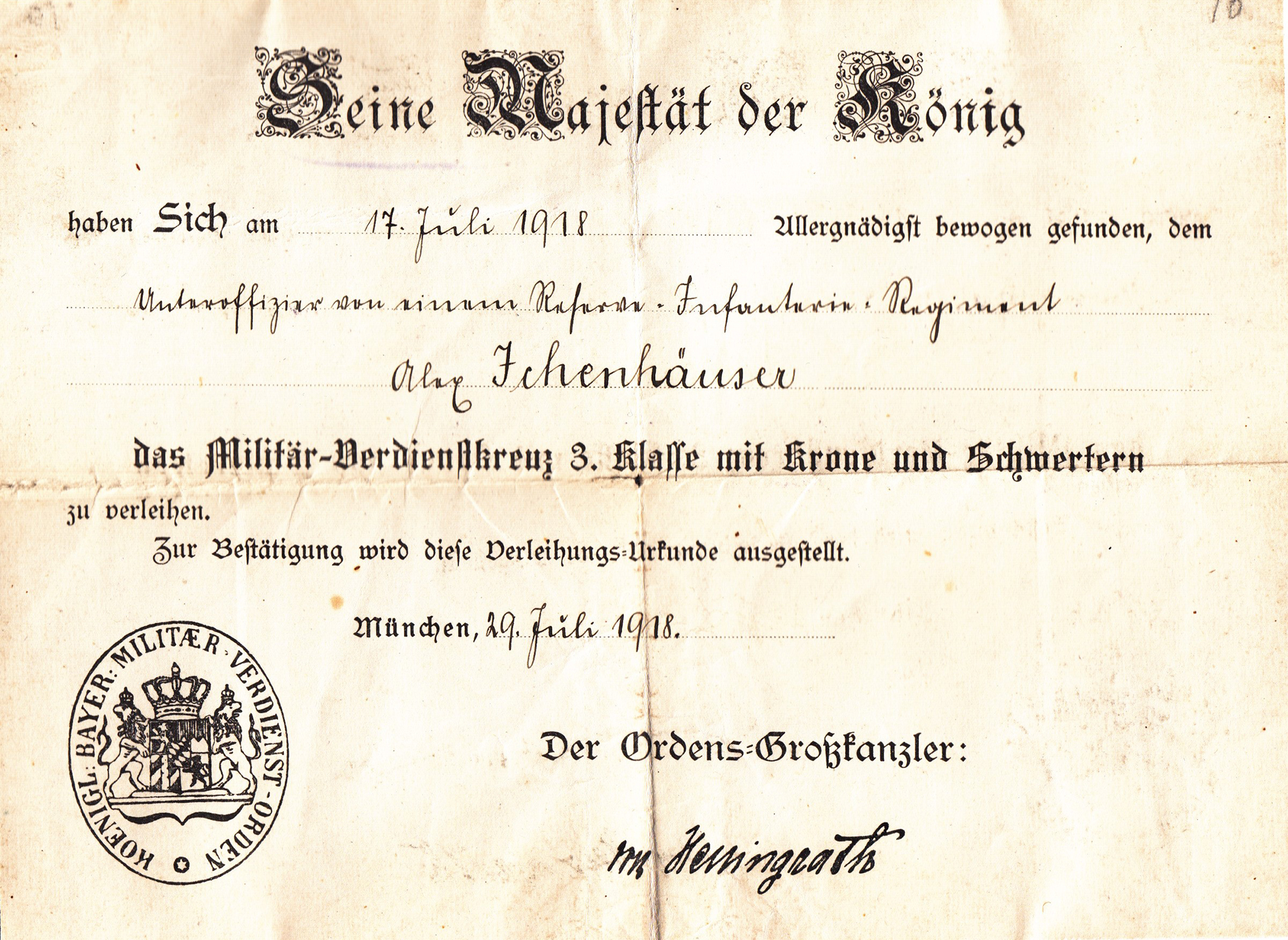 Alex Ichenhauser was born into a German Jewish family and lived in Furth in Bavaria. He served with the 14th Bavarian Infantry Regiment (10th Company) in 1917/18 at the Somme, Flanders and Cambrai. He was awarded the Bavarian Military Merit Cross 3rd Class with Crown and Swords (see photos). He was later forced to leave Germany in 1939, selling the artists brush factory which had been in the family for 100 years for a knock-down price to the factory foreman. He managed to obtain the funding and guarantees necessary to settle in England.